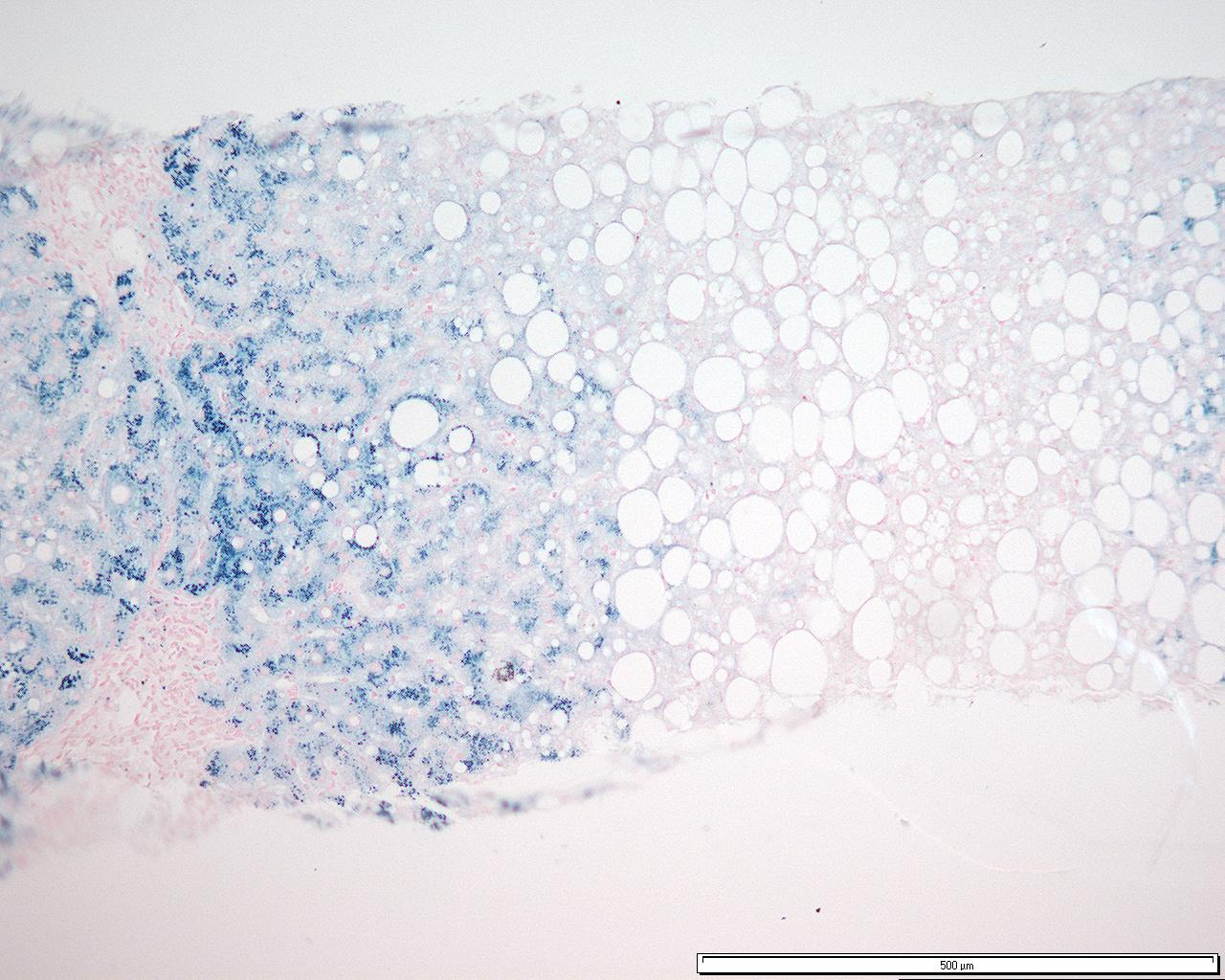 Grade 3 hepatocyte iron accumulation with an acinar distribution pattern consistent with homozygous genetic Hemochromatosis (Stained with Perl's Prussian Blue).